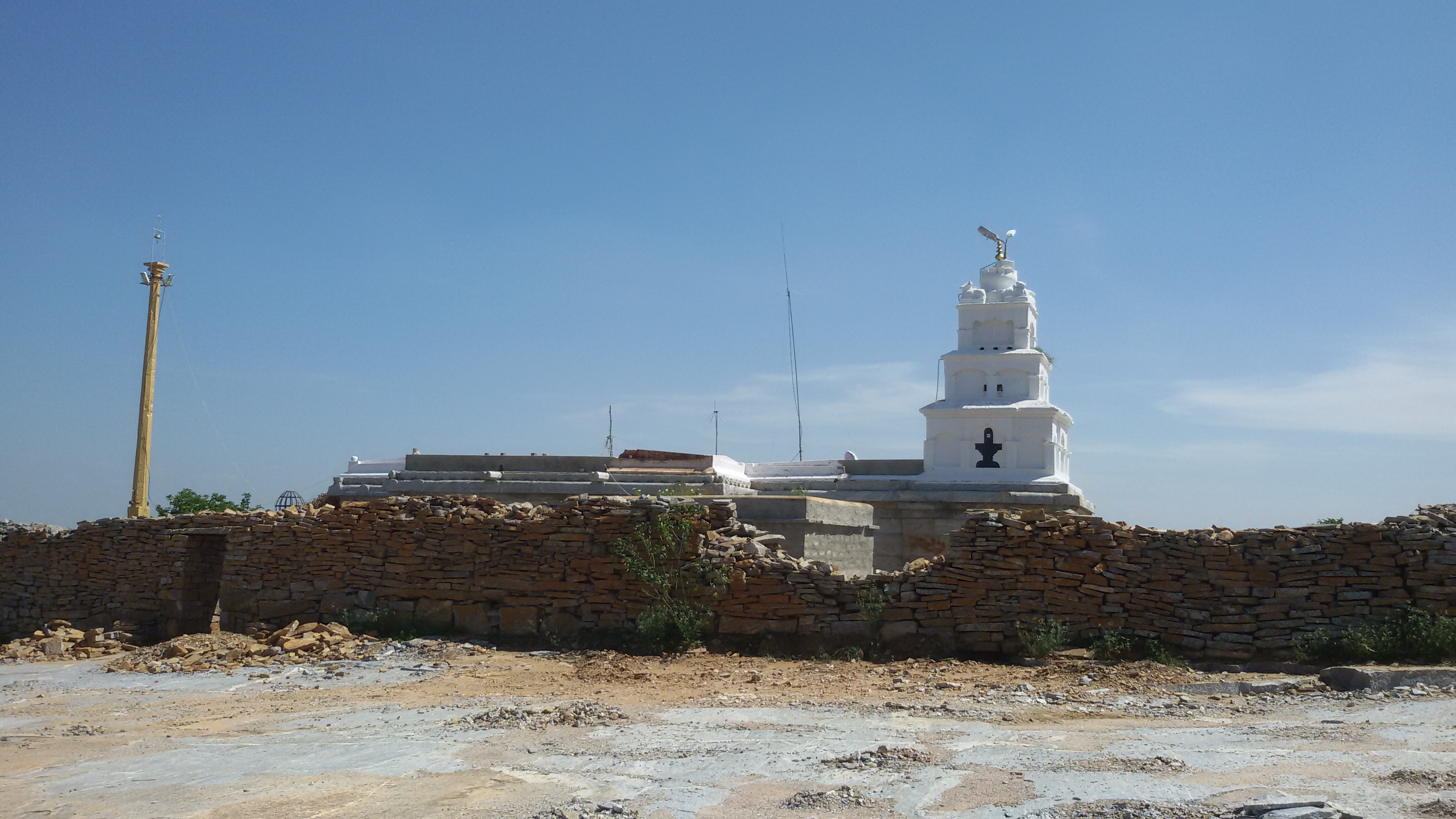 Located at Nallaralahalli, Bashattihalli